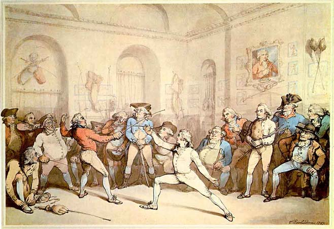 "I shall conquer this" Watercolor of Henry Angelo's Fencing Academy, by Rowlandson, 1787. The famous fencer the Chevalier St. George's portrait, foils, and fencing shoes are displayed on the right wall.